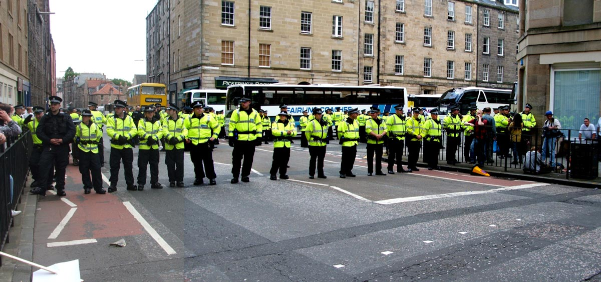 Police at Make Poverty History demo, Edinburgh, 2005